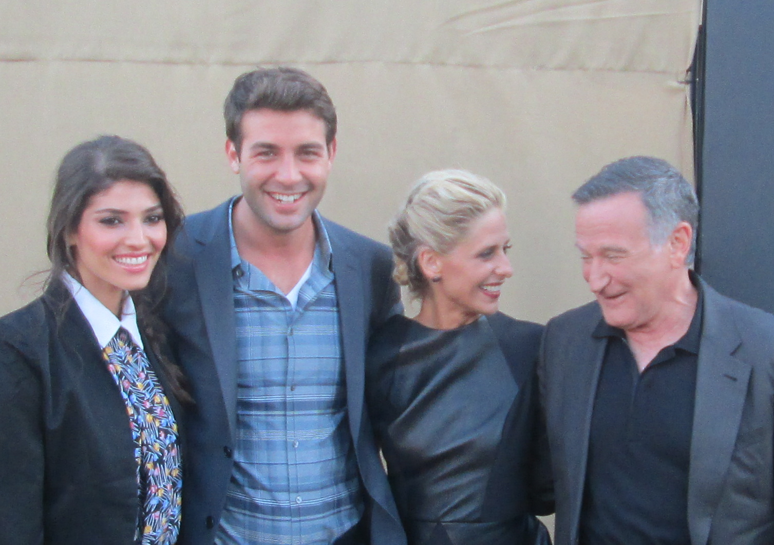 The cast of The Crazy Ones